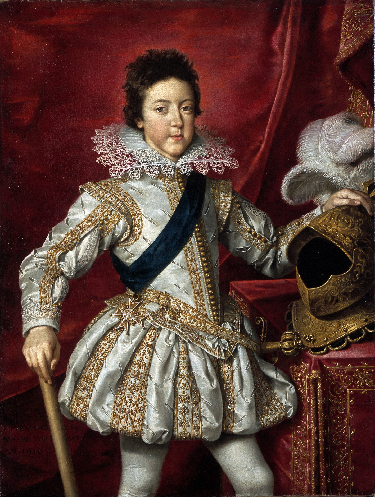 Louis XIII. of France, King of France, son of King Henry IV. of France and Maria de Medici, spouse of Infanta Ana of Spain, father of King Louis XIV. of France, Louis XIII.